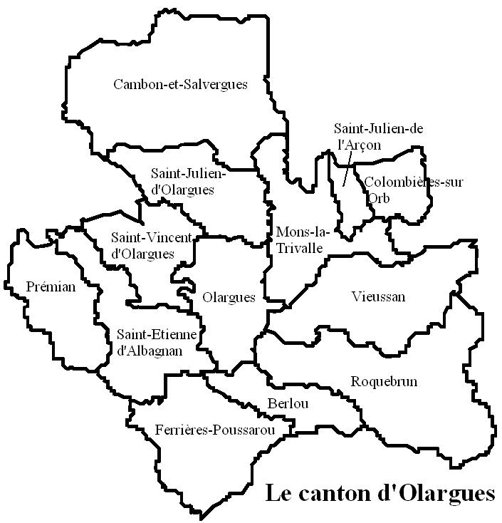 Canton of Olargues